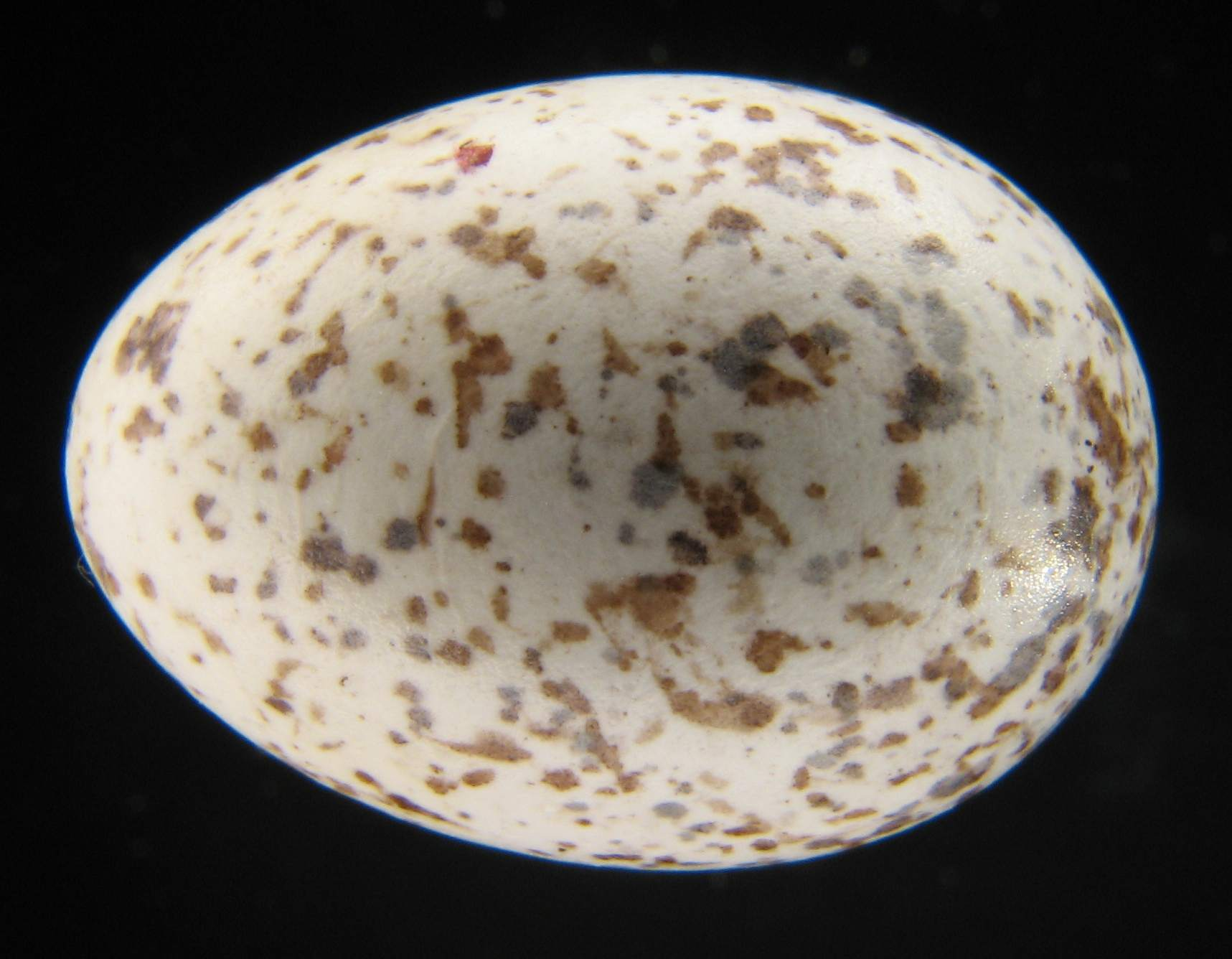 Cliff swallow egg collected from nest under bridge near terminus of the San Luis Drain, Merced County, CA, USA (N 37.24083 degrees, W 120.88164 degrees); May 18, 2006.